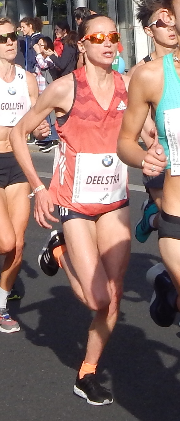 Berlin Marathon 2018